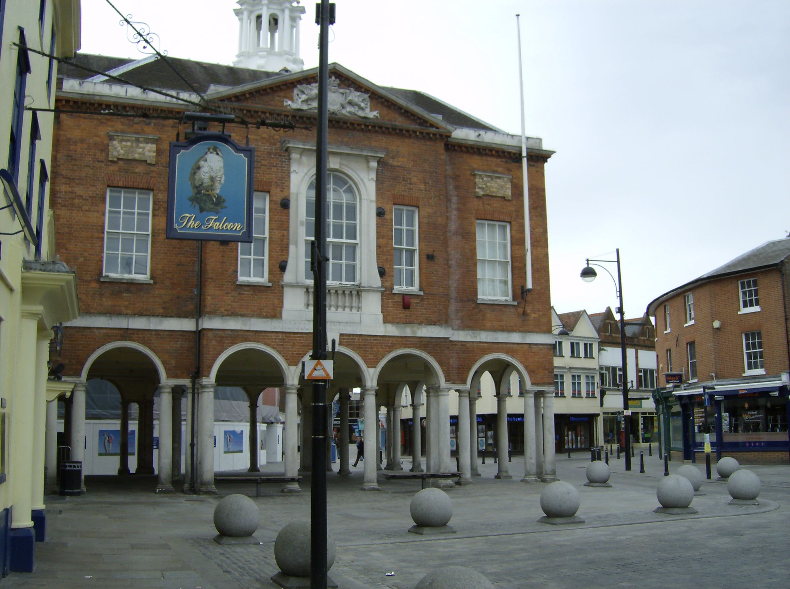 High Wycombe Guildhall.